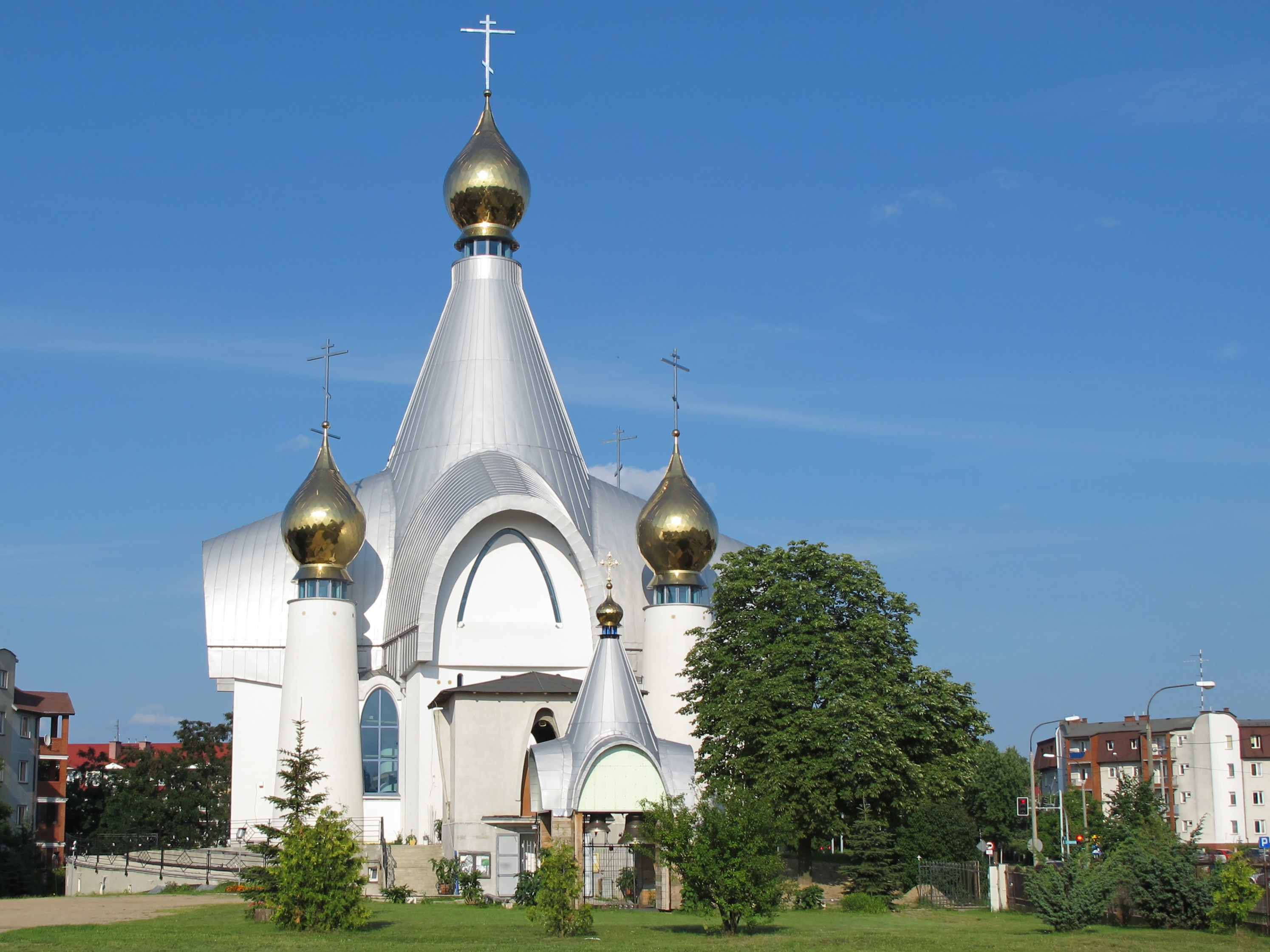 St. George orthodox church in Białystok, Puławskiego 36 street, gmina Białystok, podlaskie, Poland